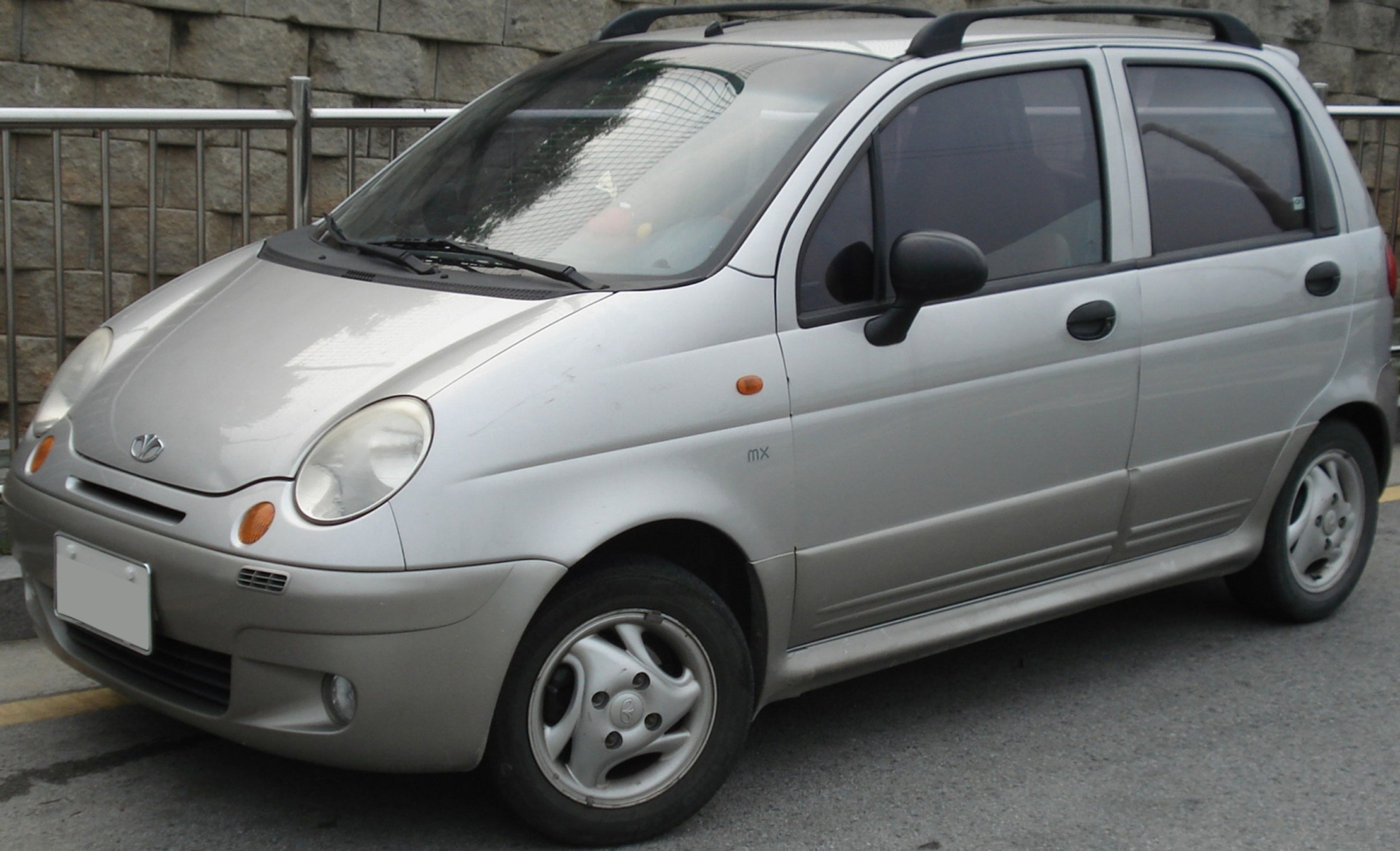 Daewoo Matiz Ⅱ